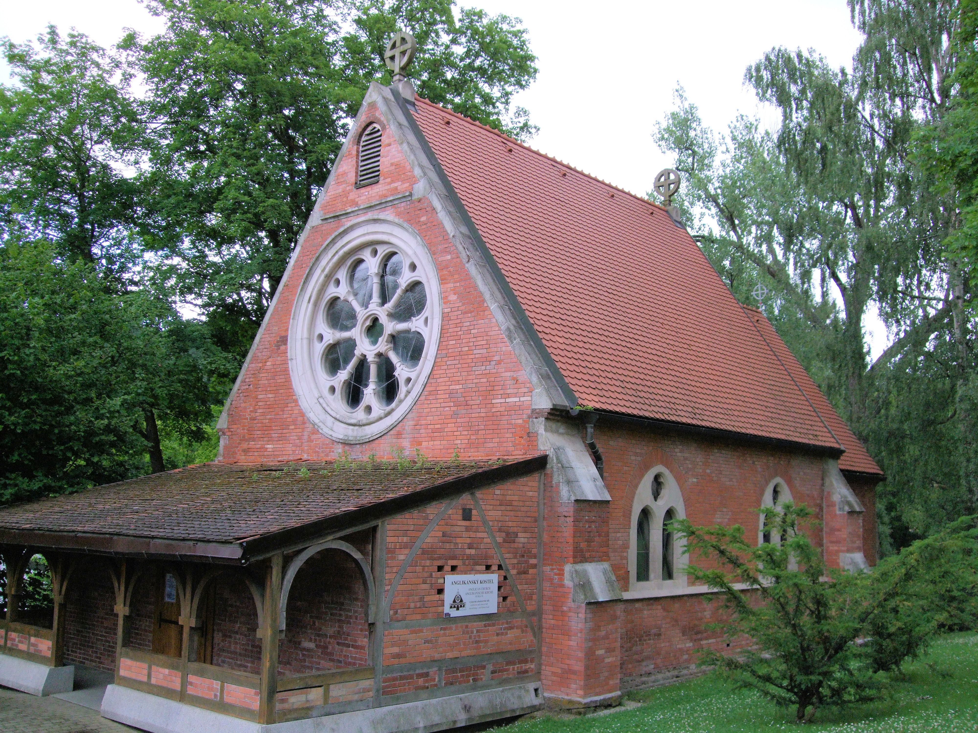 Former Anglican church in Mariánské Lázně, Cheb District, Czech Republic. The old red brick Anglican church in the Czech spa town of Mariánské Lázne (formerly known as Marienbad) is still standing. There was a time when Marienbad cut a dash on the royal tourism circuit. The English king, Edward VII, was a regular visitor and came to church here. It has been a while though since any services were celebrated in Marienbad's old Anglican chapel. Today the building is used as a gallery.